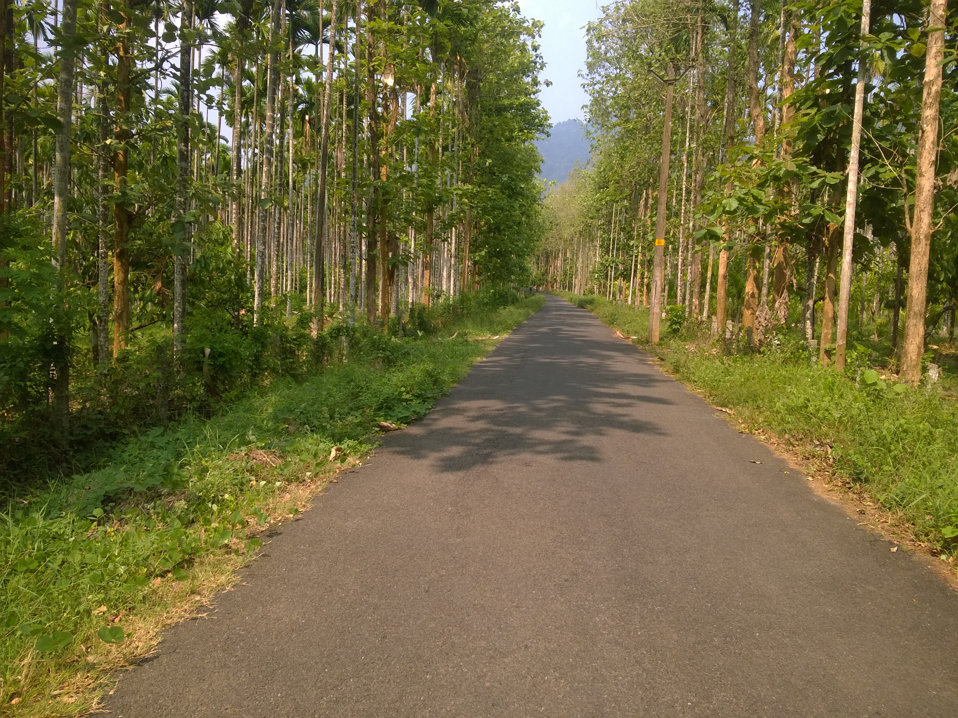 Teak trees on road side